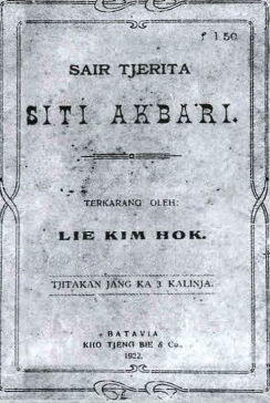 Book cover for second edition of Sair Tjerita Siti Akbari